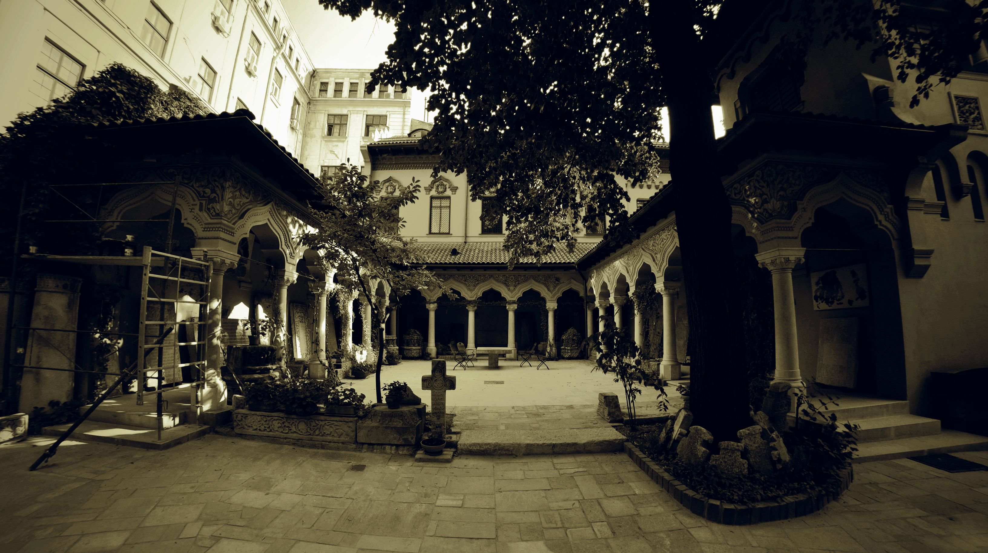 courtyard of Stavropoleos Monastery [finished in 1908] Ion Mincu (1852–1912) DescriptionRomanian architect, politician and engineerDate of birth/death 20 December 1852 6 December 1912 Location of birth/death Focșani BucharestAuthority control : Q360474 VIAF: 128915598 ISNI: 0000 0001 2155 5134 ULAN: 500250999 GND: 134185765 creator QS:P170,Q360474